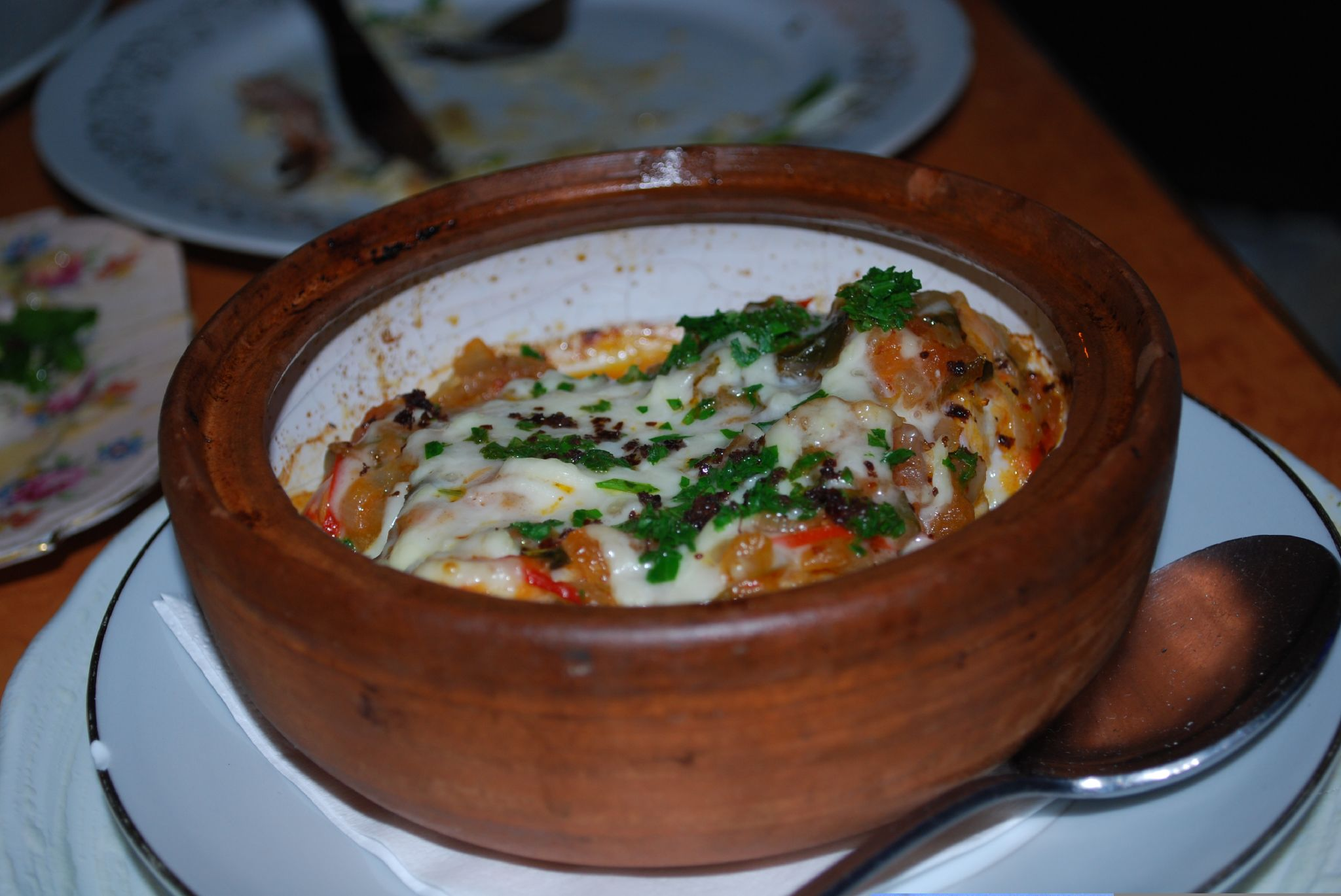 Prawn güveç